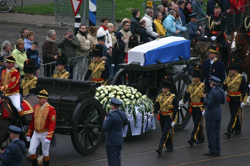 The funeral carriage of HRH Prince Bernhard of The Netherlands